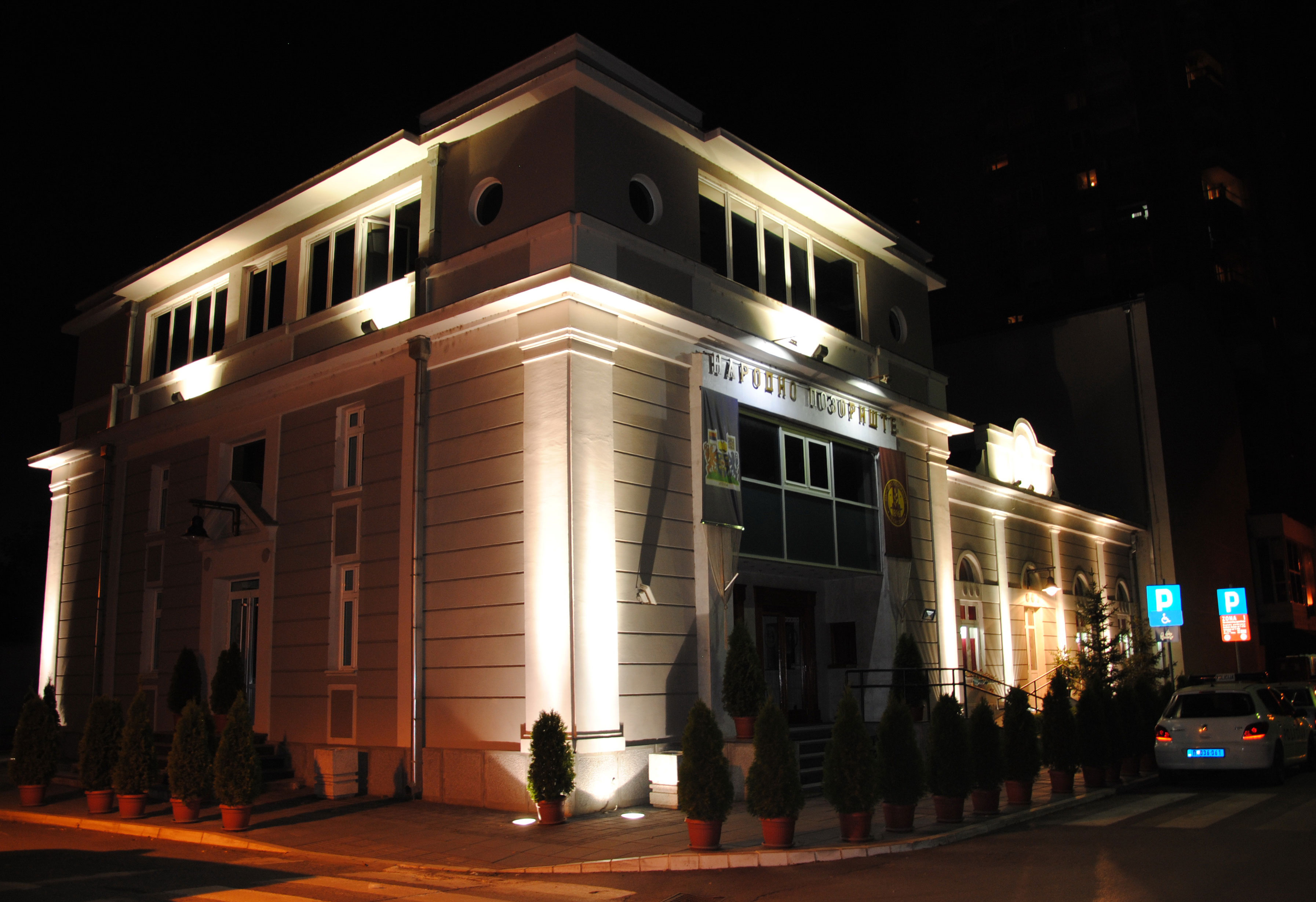 Leskovac National Theater